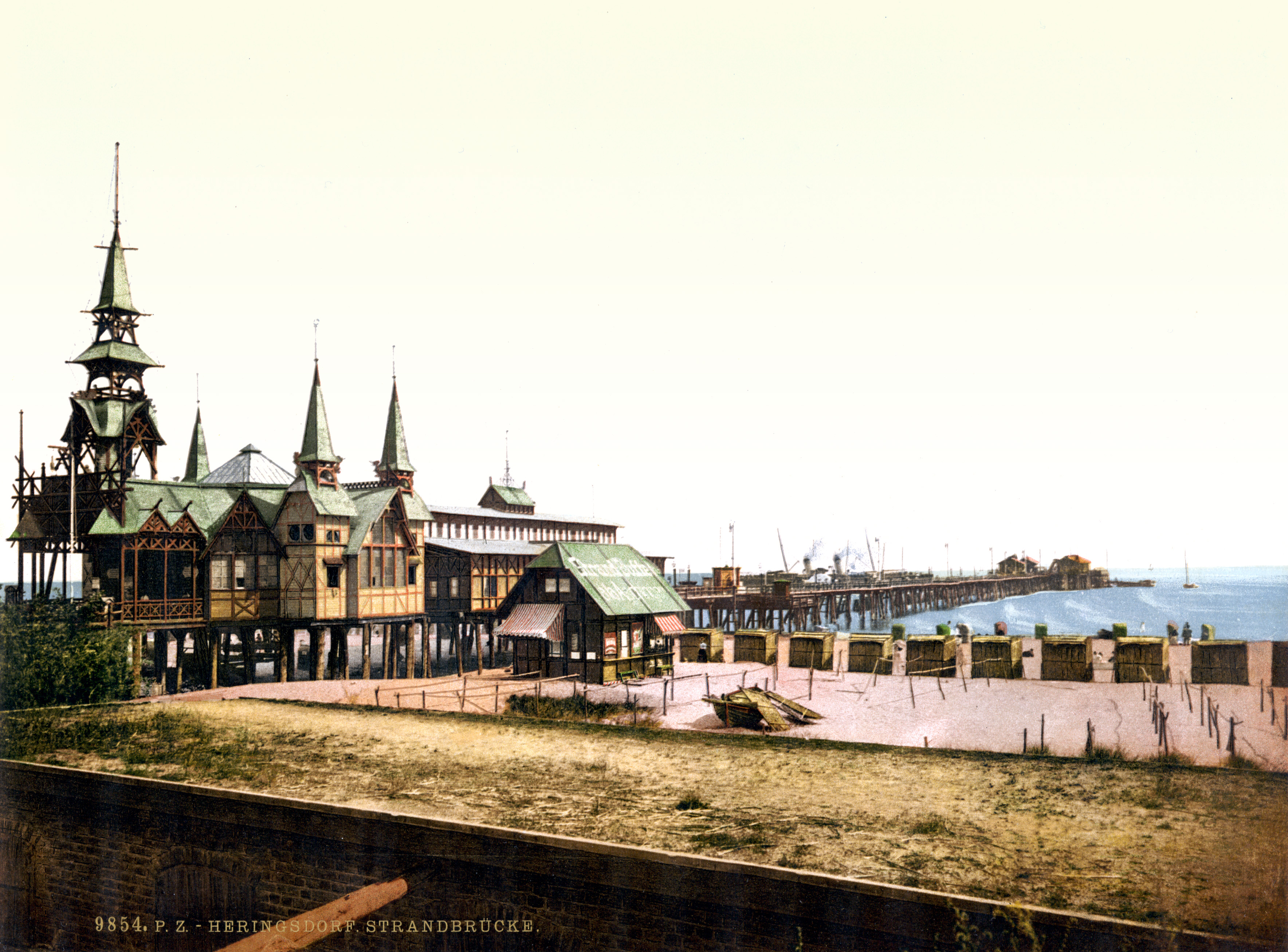 The pier, Seebad Heringsdorf, Usedom, Pomerania, Germany